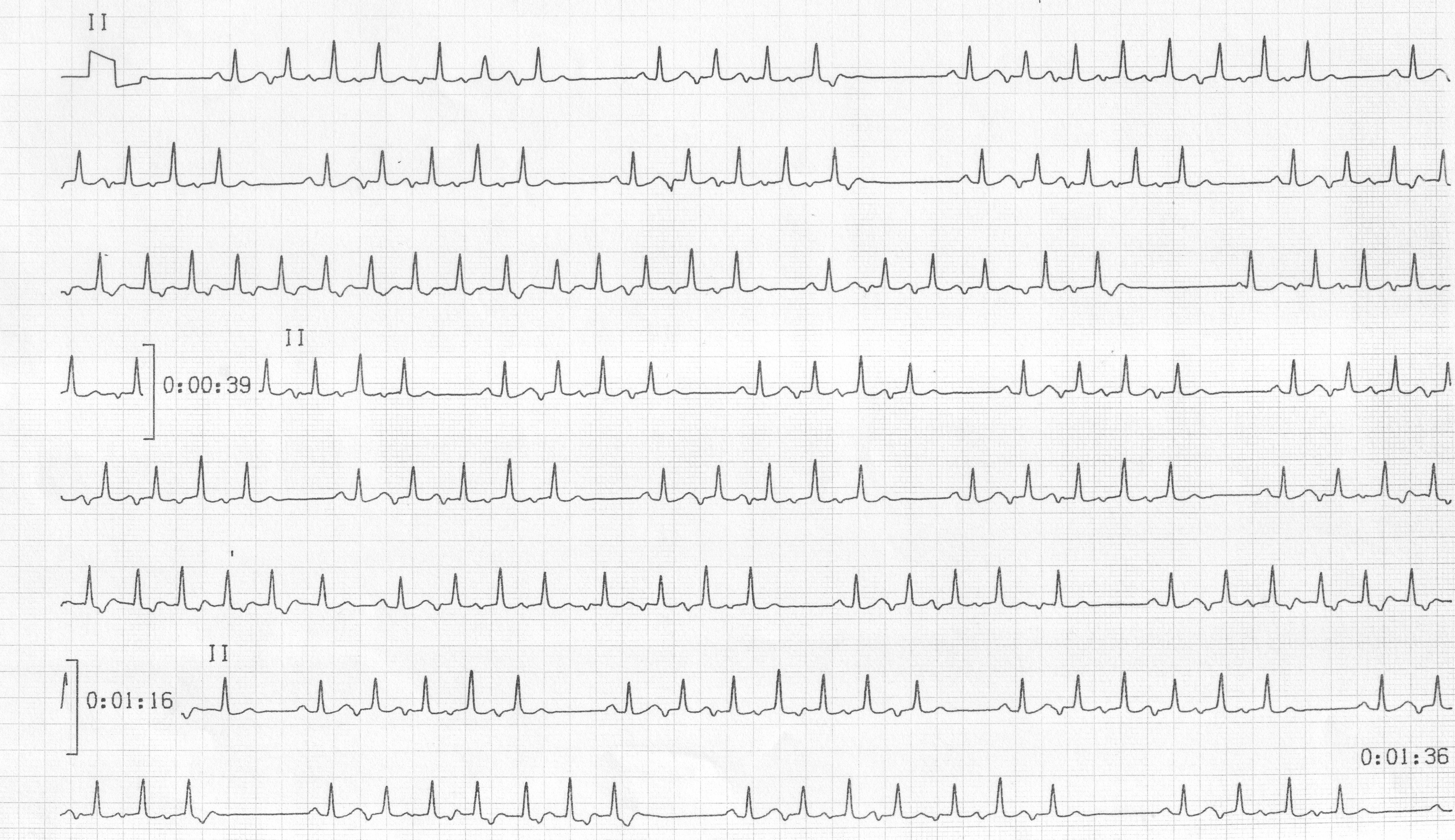 supraventricular tachycardia